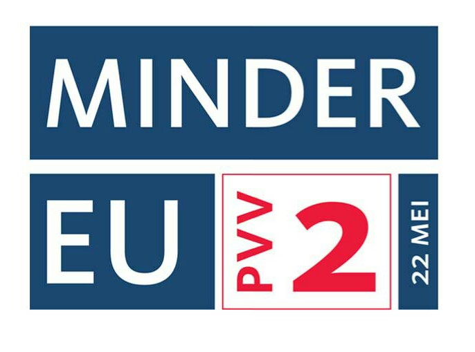 Poster used by the PVV in the European Parliament elections of 2014